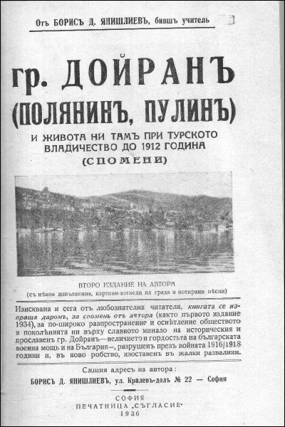 Doyran